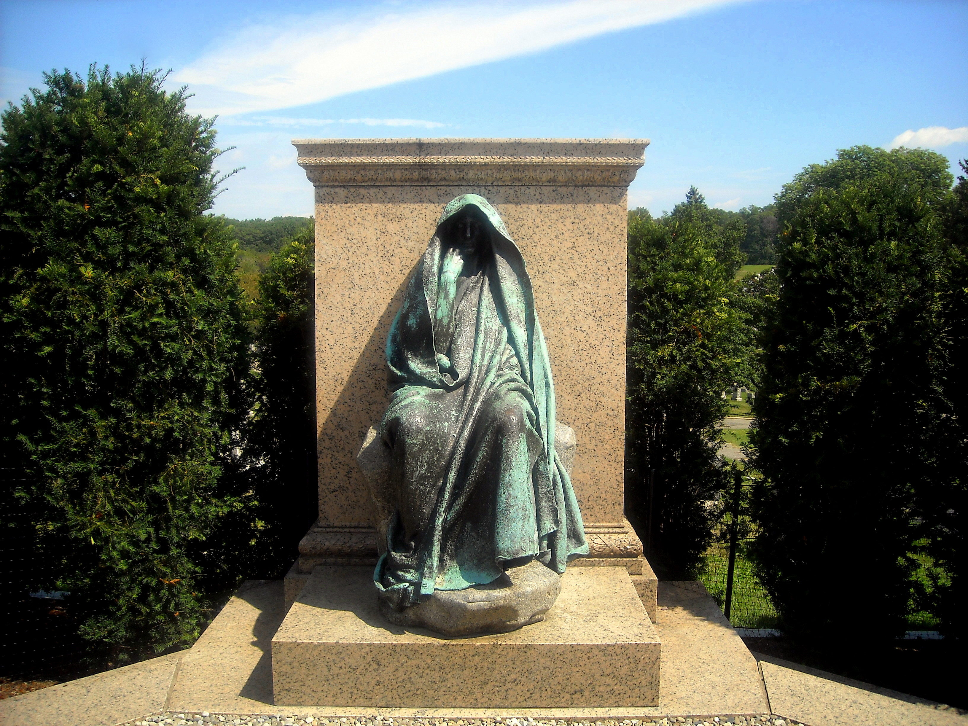 The Peace of God, also known as the Adams Memorial or Grief, sculpted by Augustus Saint-Gaudens in 1891 and located in Rock Creek Cemetery, Washington, D.C. The memorial is listed on the National Register of Historic Places.